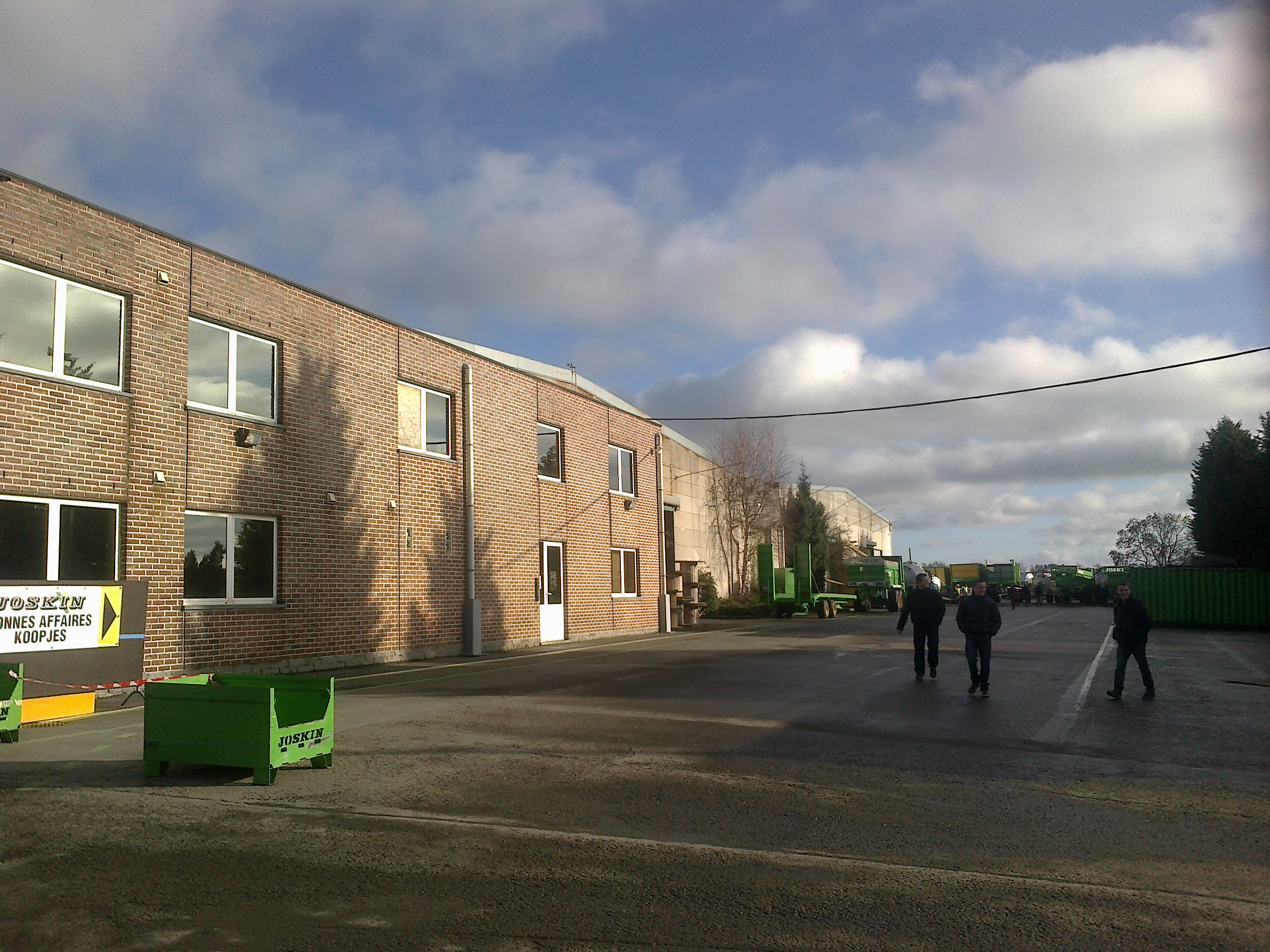 Joskin factory in Soumagne, Belgium